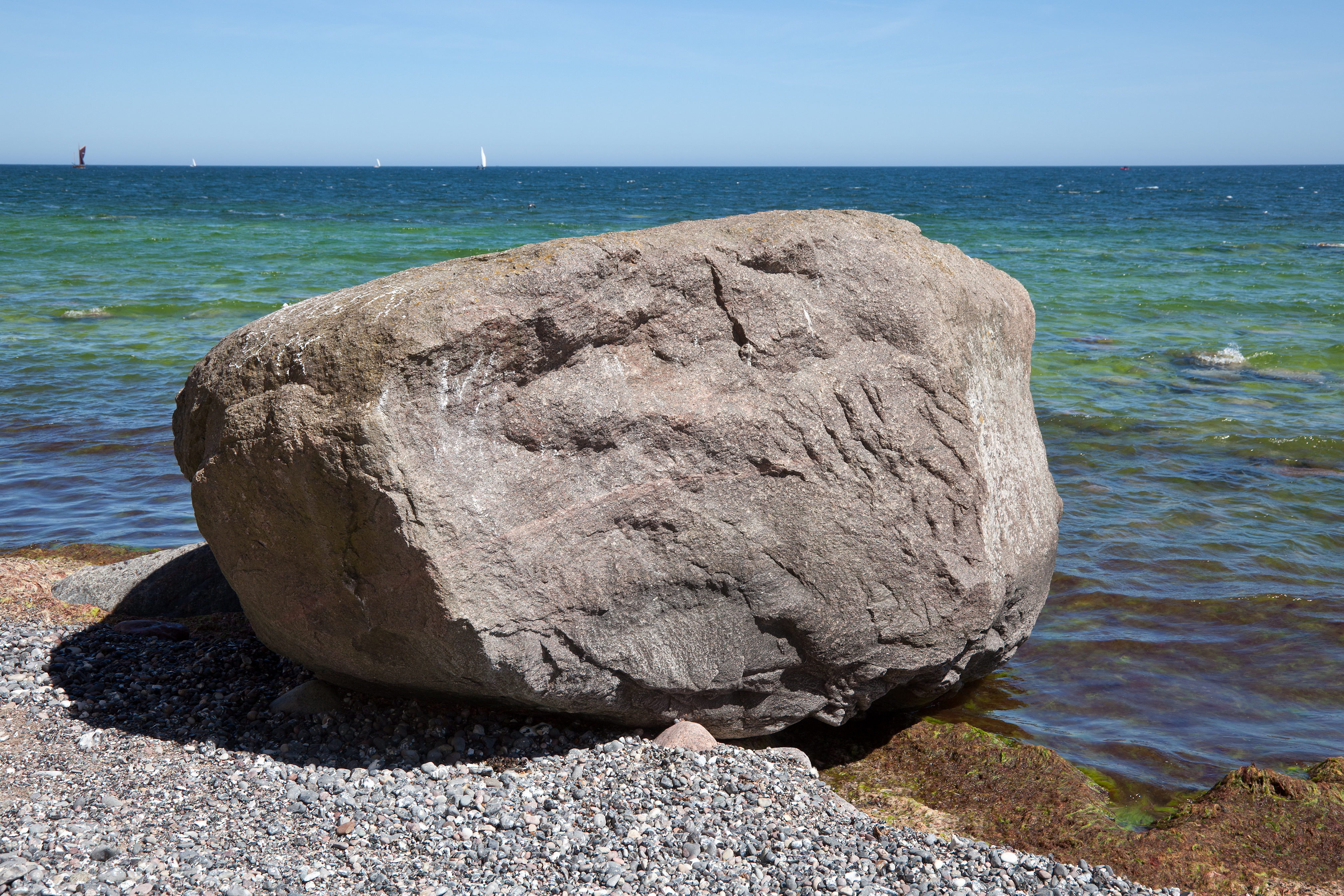 "Findling Jasmund", glacial erratic in the Jasmund National Park